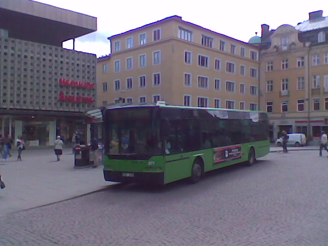 A Neoplan N4416 Centroliner city bus (#377) in Uppsala, Sweden. Built 2001, GUB Uppsala operator.